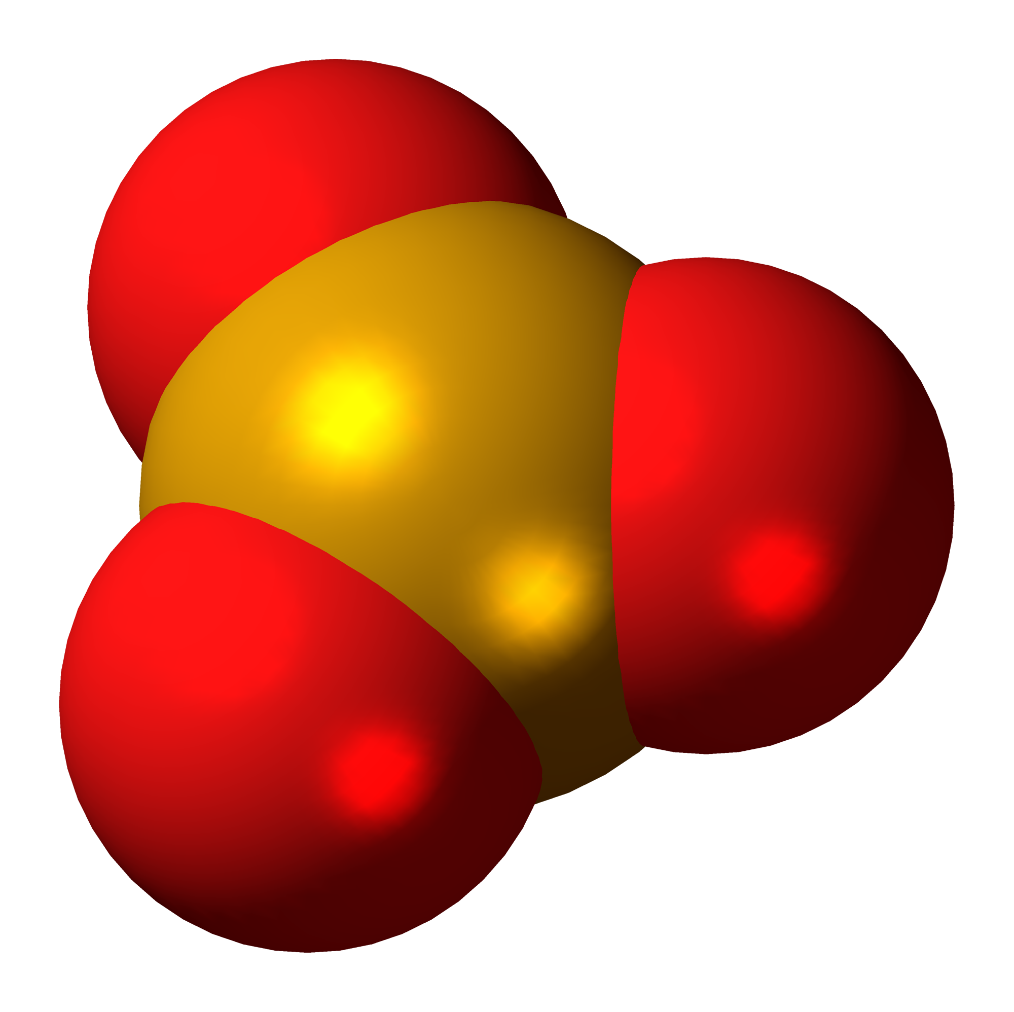 Space-filling model of the selenium trioxide molecule, a compound used in the manufacture of solar panels. Colour code: Oxygen, O: red Gold: Selenium, Se